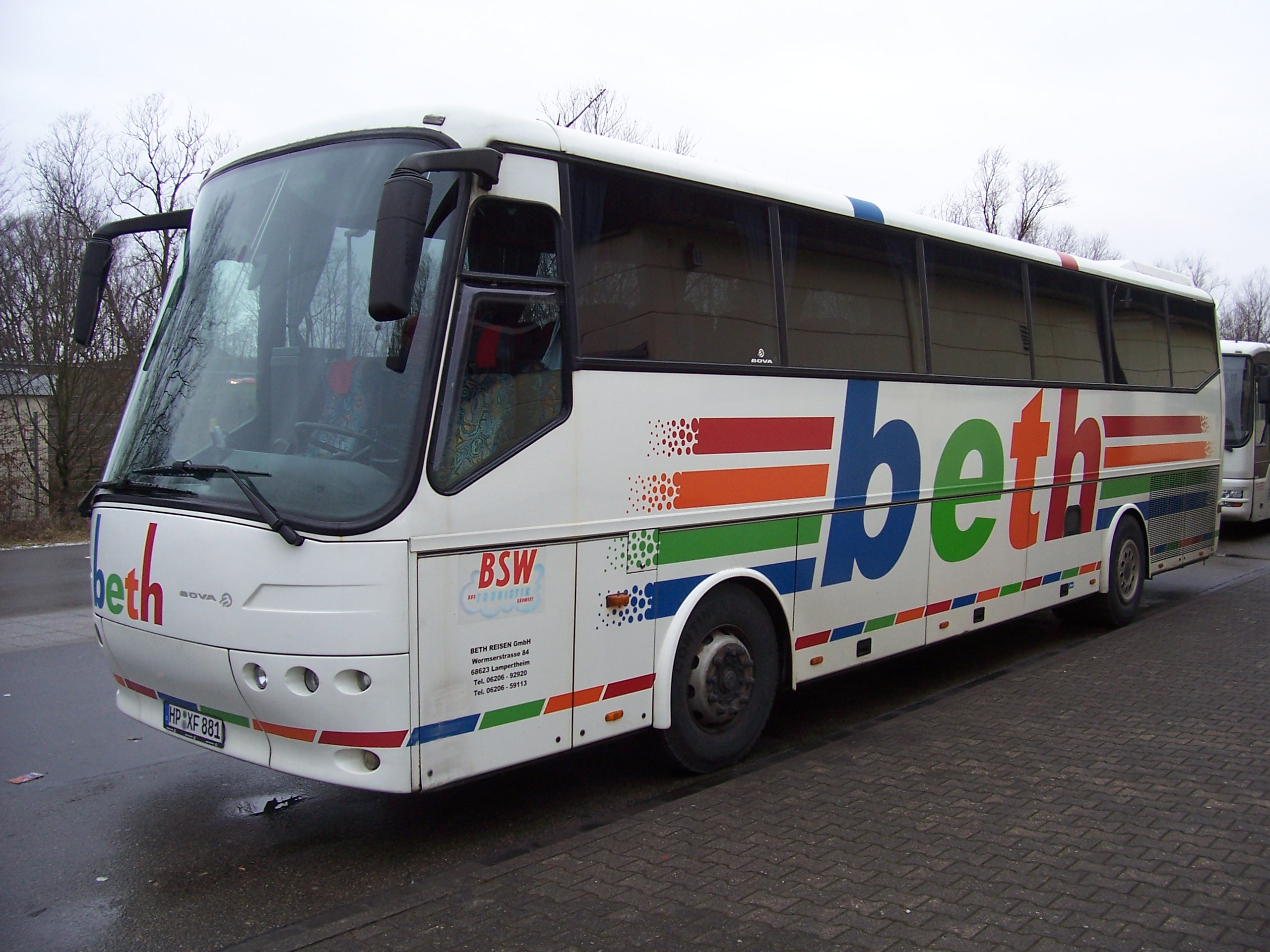 A Bova Touring bus in Viernheim, Germany My own photo